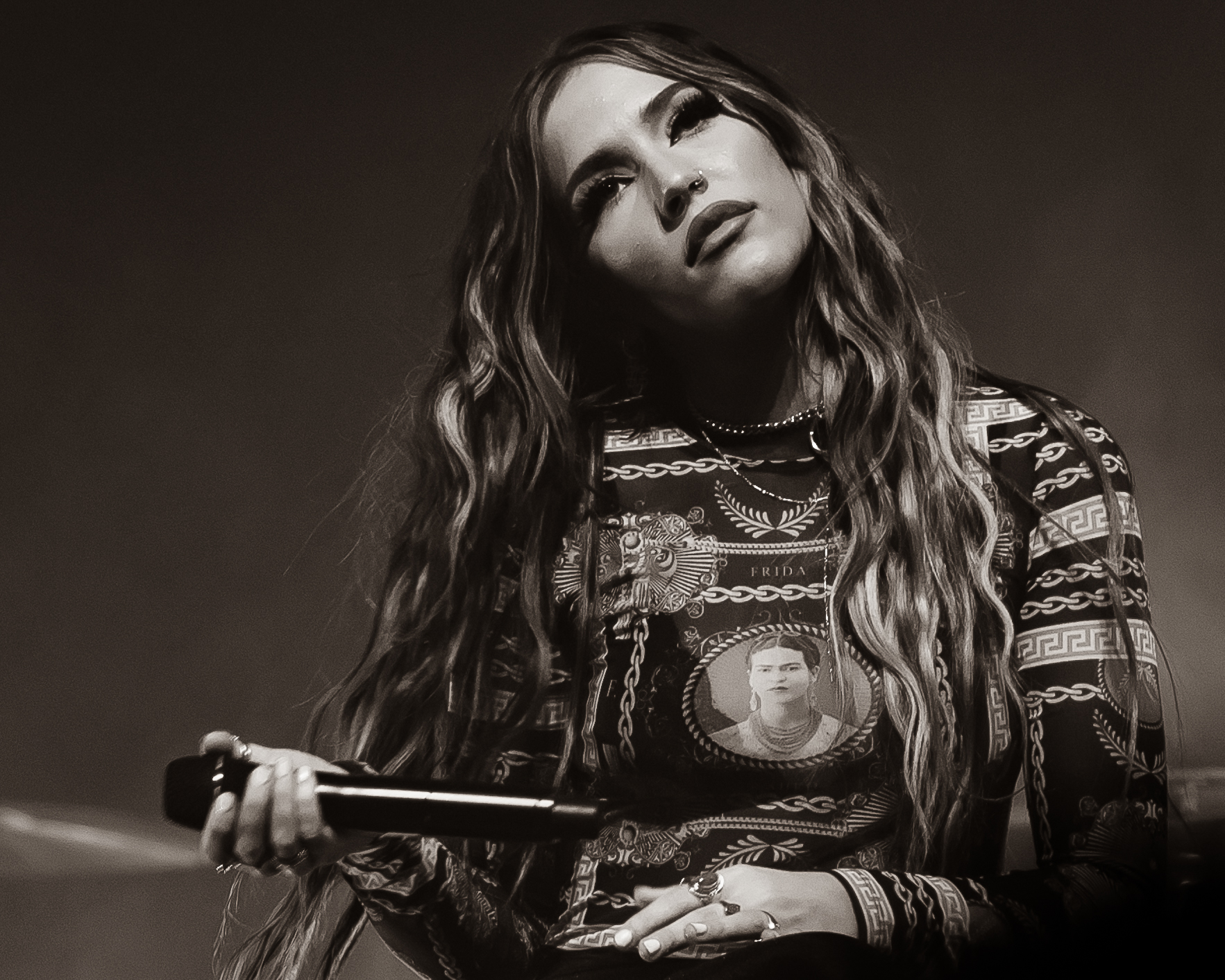 Lennon Stella performing live at The Fonda theatre in Los Angeles, California, on Wednesday, April 3, 2019. Shot for Pass The Aux.